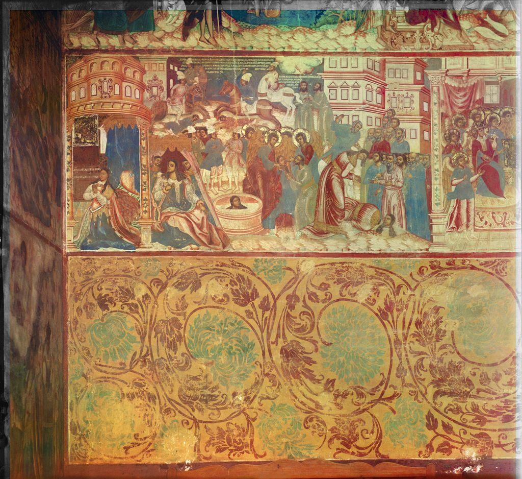 Wallpainting fragment of the interior of the Church of the Fyodorovskaya Mother of God. Yaroslavl, 1911